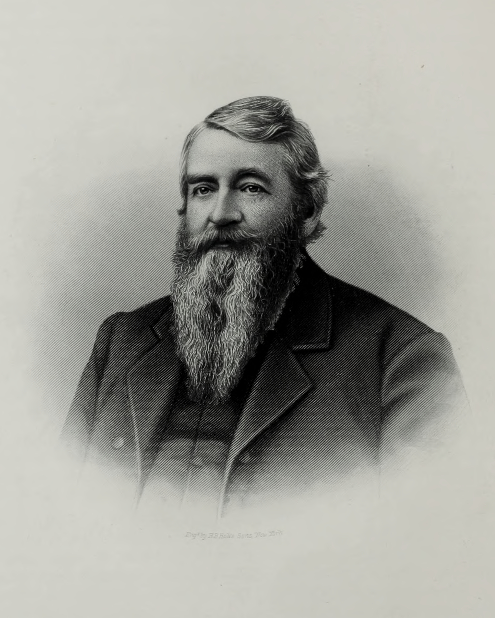 Portrait of Hugh Brooks Mills (1828–1901)